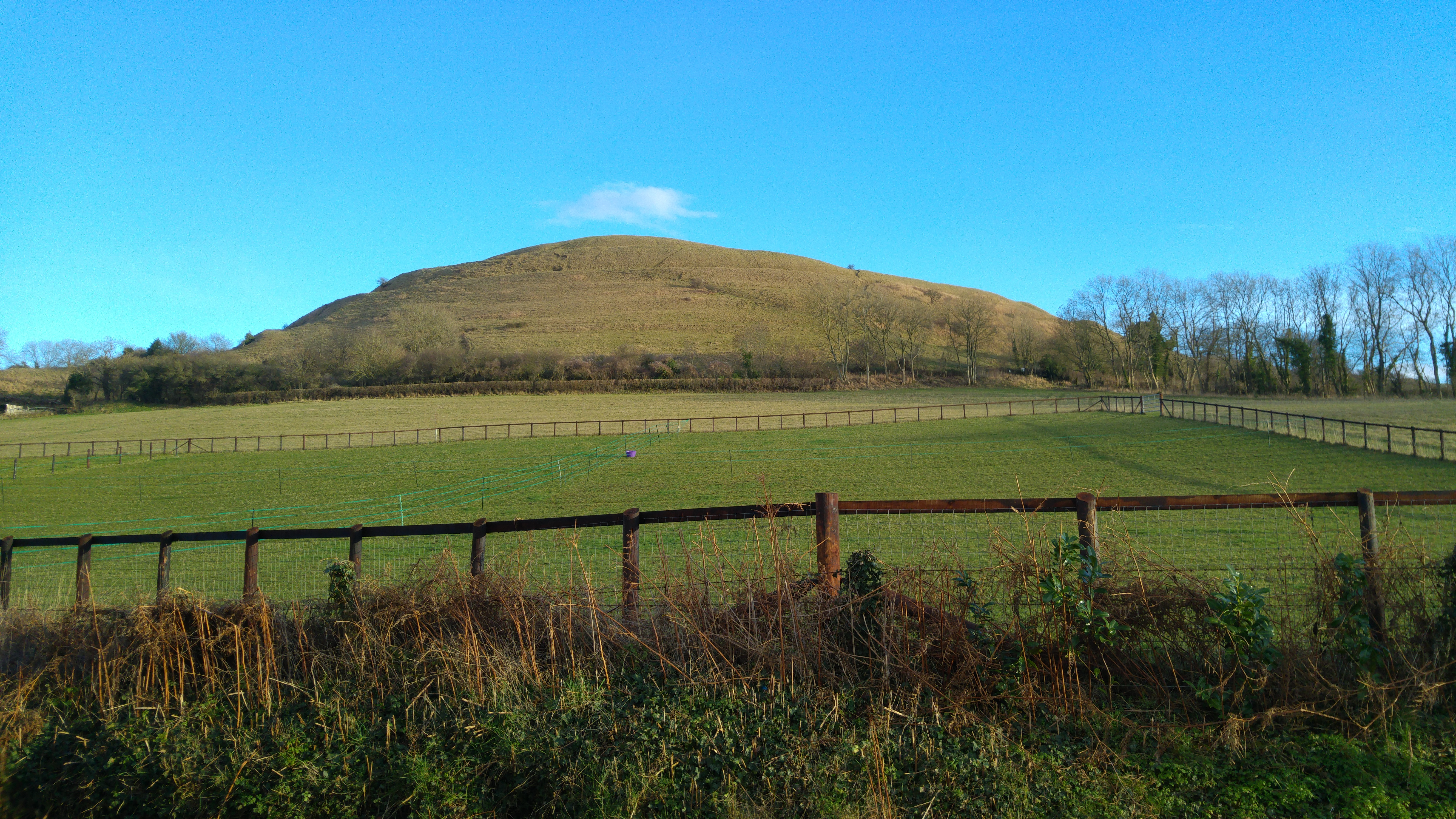 View of Hambledon Hill from the north